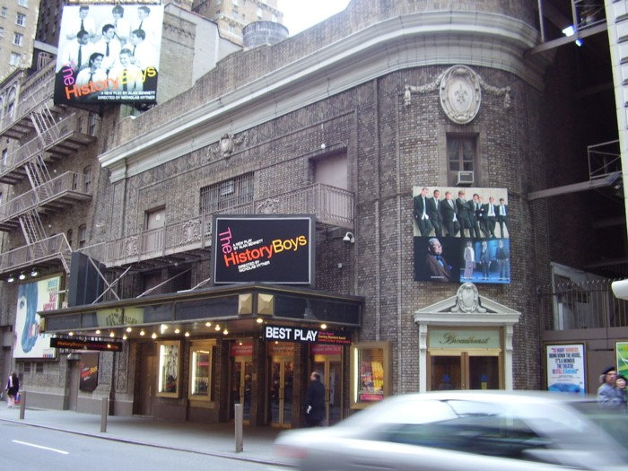 Broadhurst Theatre, NYC, 2006. Photo by Mademoiselle Sabina.